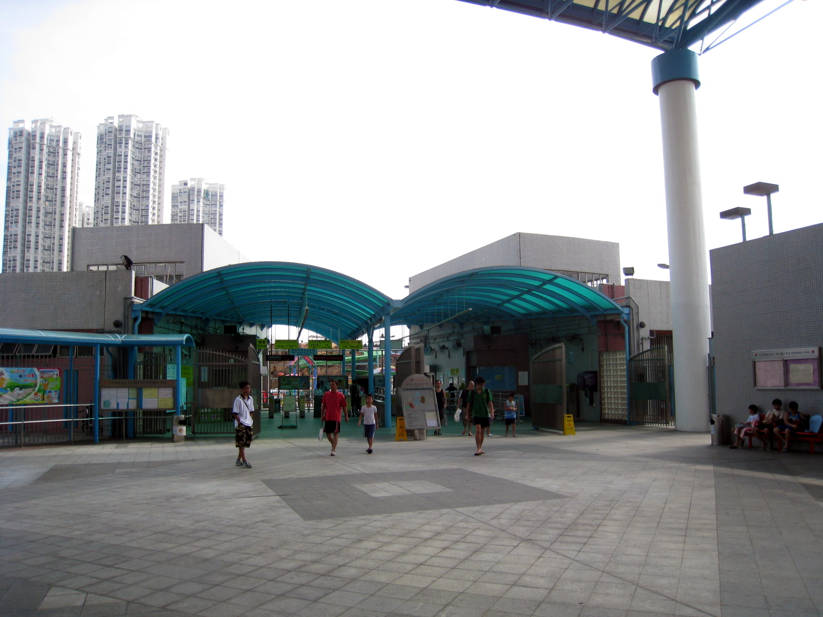 Tin Shui Wai Swimming Pool Enterance